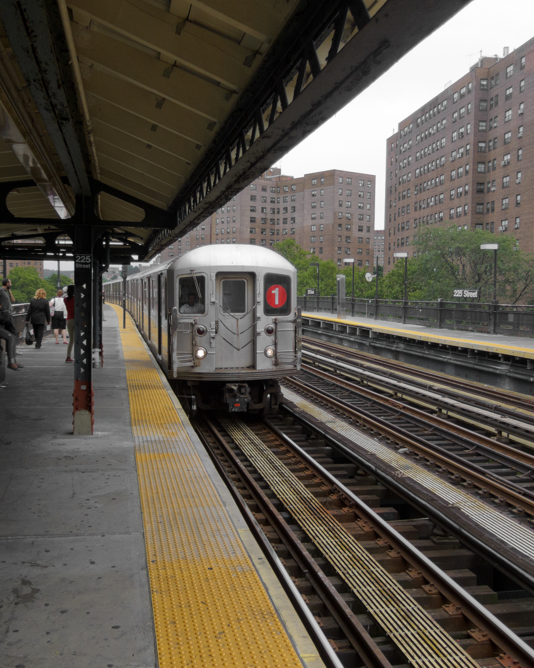 A Line 1 subway train approaching Marble Hill – 225th Street Station.